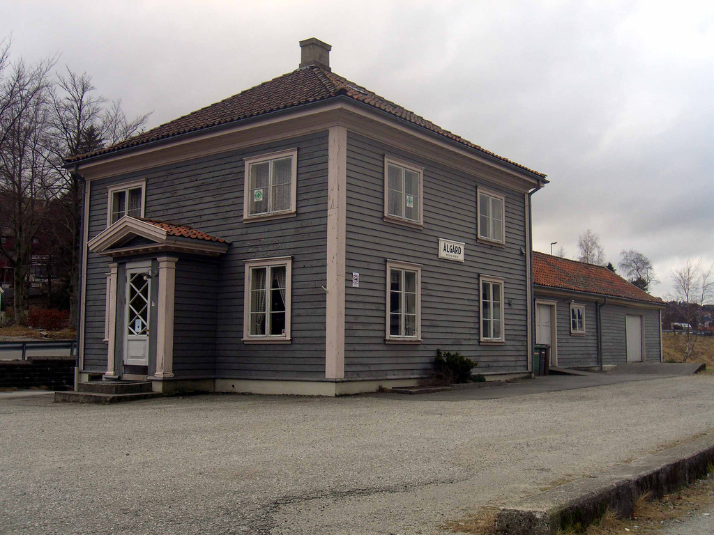 Ålgård station, Ålgårdbanen, Norway. The railway line was closed down in 1955. This was the end station on the track from Sandnes.